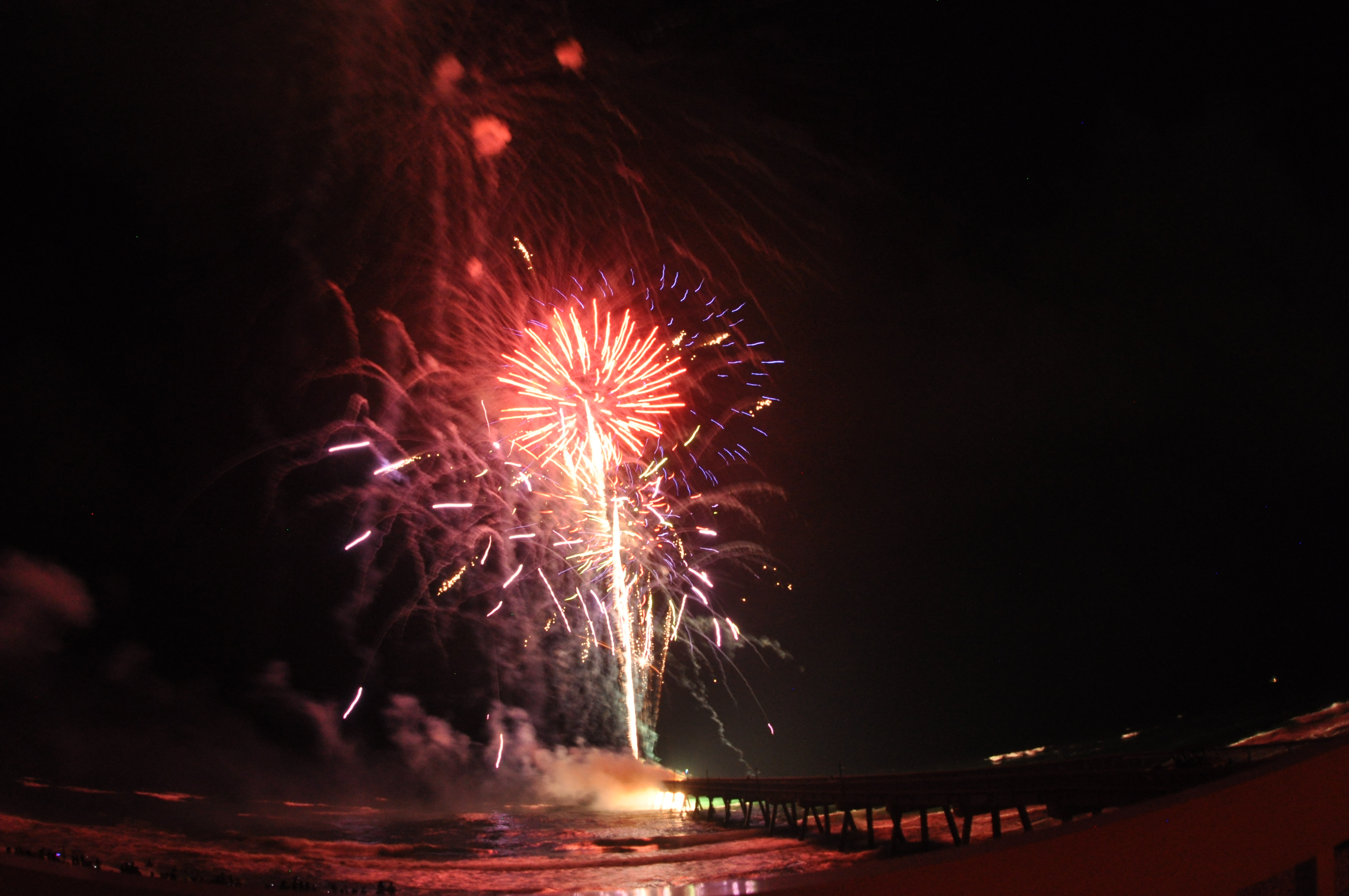 Deerfield beach fireworks show 2013 photo D Ramey Logan